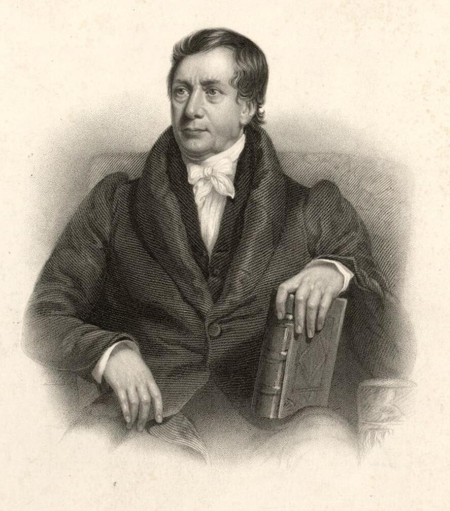 A portrait from the Welsh Portrait Collection at the National Library of Wales. Depicted person: Henry Nott – British missionary